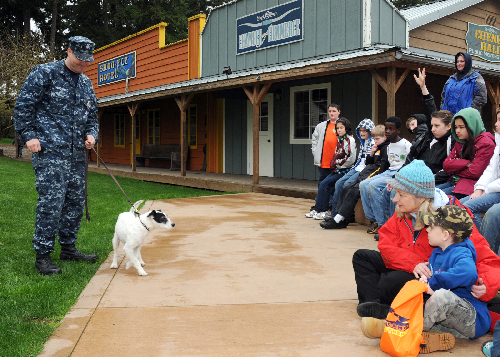 PORT ORCHARD, Wash. (April 1, 2010) Children participating in a Kids' Day Deployment meet Zorro, a military working dog and his handler, Master-At-Arms 1st Class Josh Vanorden, from Naval Base Kitsap Security. The Kids' Day Deployment, sponsored by the Fleet and Family Support Center, along with the Child and Youth Program, was designed to give military children a taste of what life is like when their parents go on a deployment. The children experienced a boot camp-like setting along with demonstrations from the explosive ordinance disposal unit, military working dogs, and security personnel. (U.S. Navy photo by Mass Communication Specialist 2nd Class Chantel M. Clayton/Released)